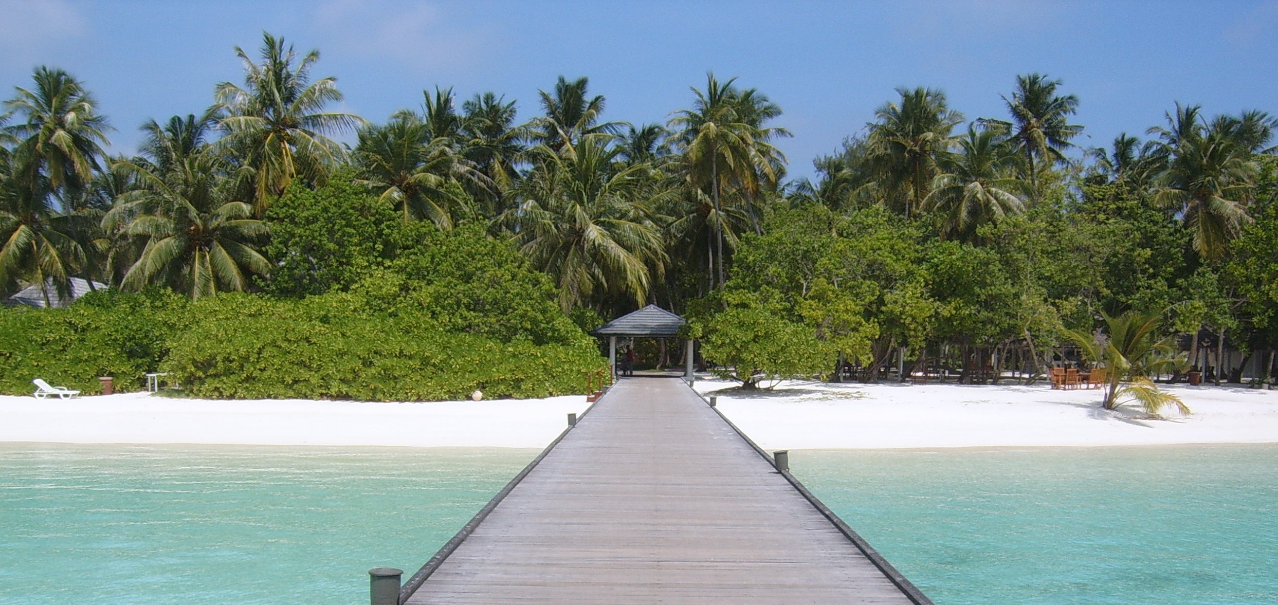 Nalaguraidhoo (Sun Island) Beach at Water Bungalows at southern side of the island